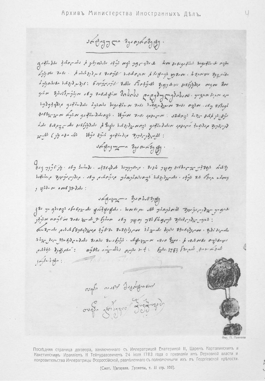 The Treaty of Georgievsk of 1783 with the signatures of Georgian plenipotentiaries Princes Ioane Bagrationi and Garsevan Chavchavadze. An illustration from Letopis' Gruzii, edited by B. Esadze, 1913.